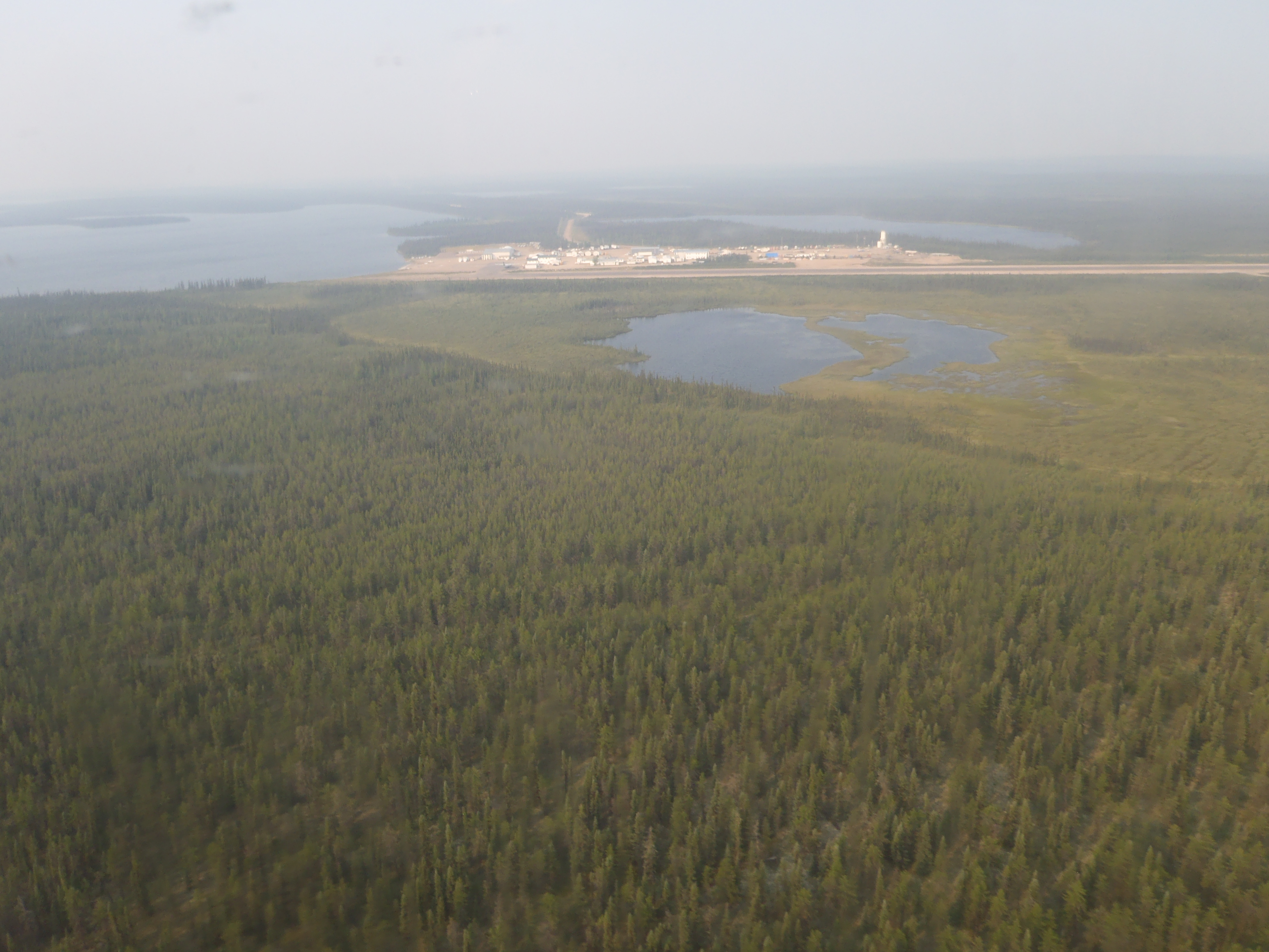 Points North camp/airport in Northern Saskatchewan as viewed on a hazy ( forest fires ) day.